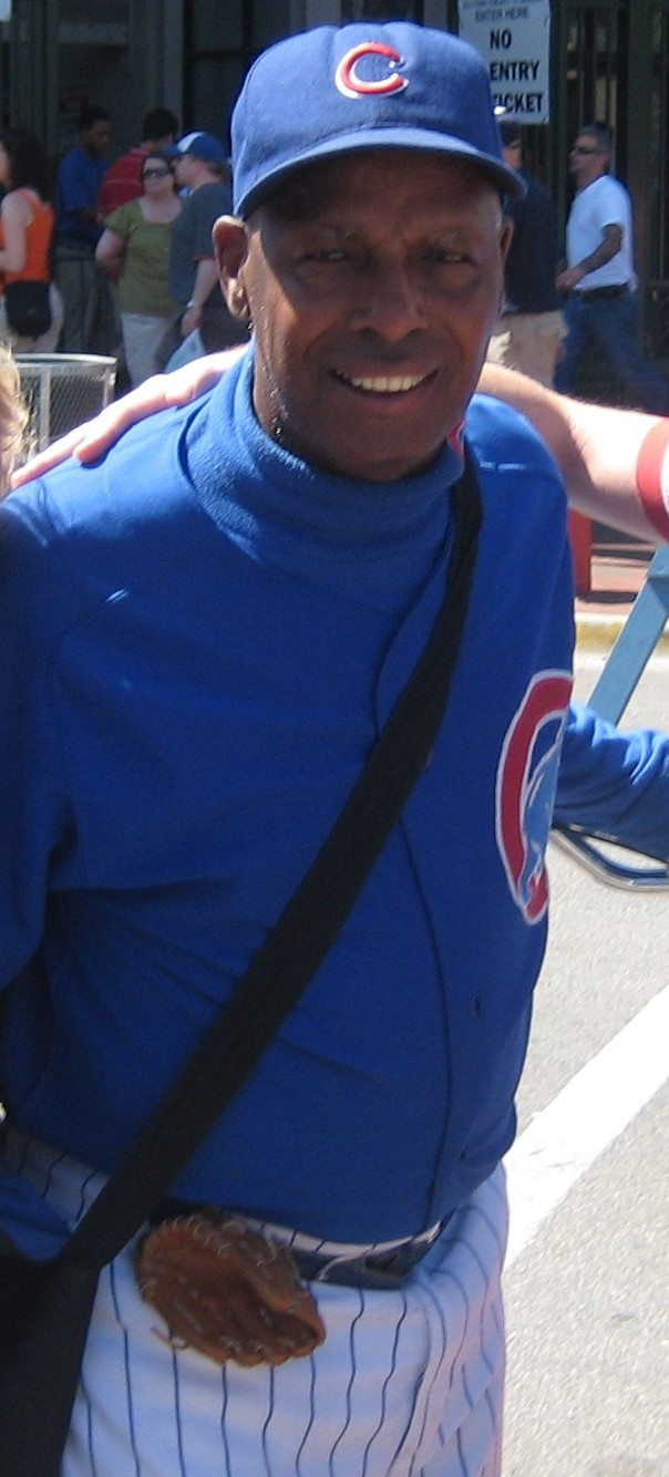 Ronnie Woo Woo on the corner of Waveland Avenue and Sheffield Avenue.